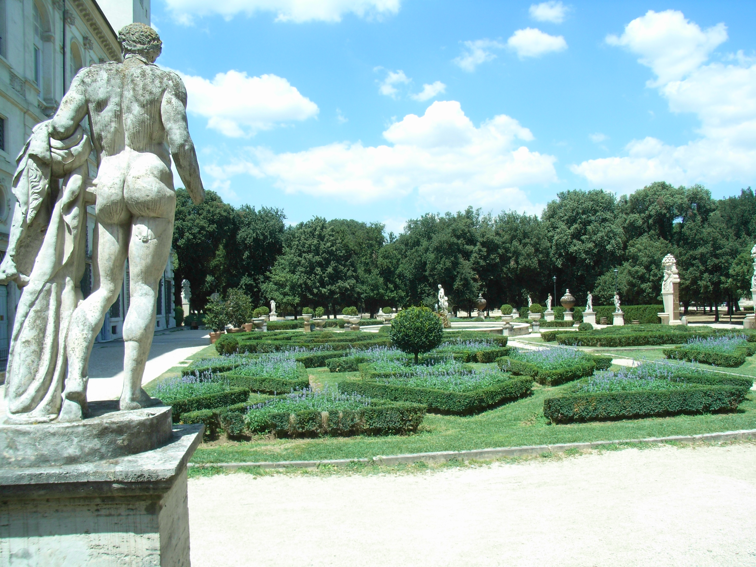 Villa Borghese (Rome) gardens